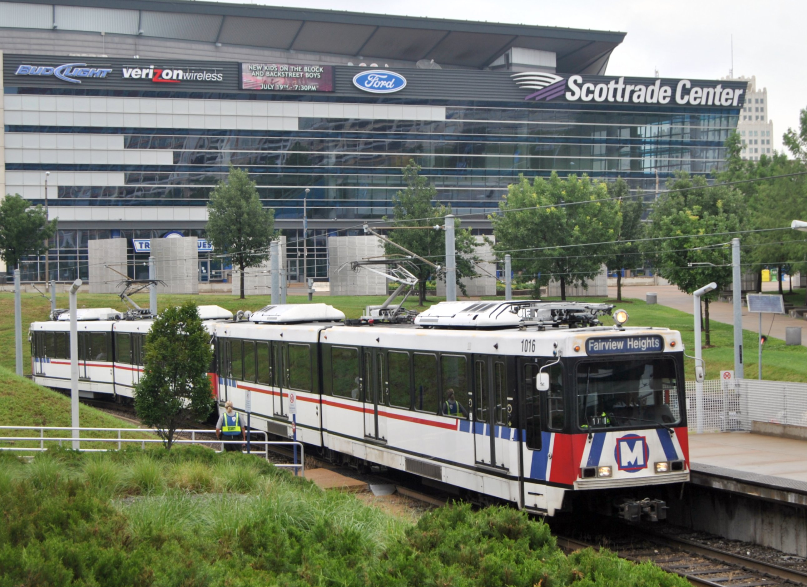 Saint Louis Missouri Metro